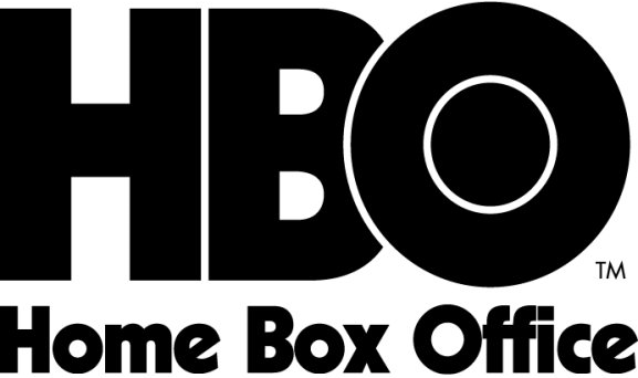 This is a former logo used by HBO between 1975 and 1981.